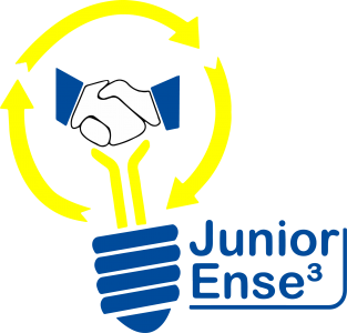 logo : Junior Ense3